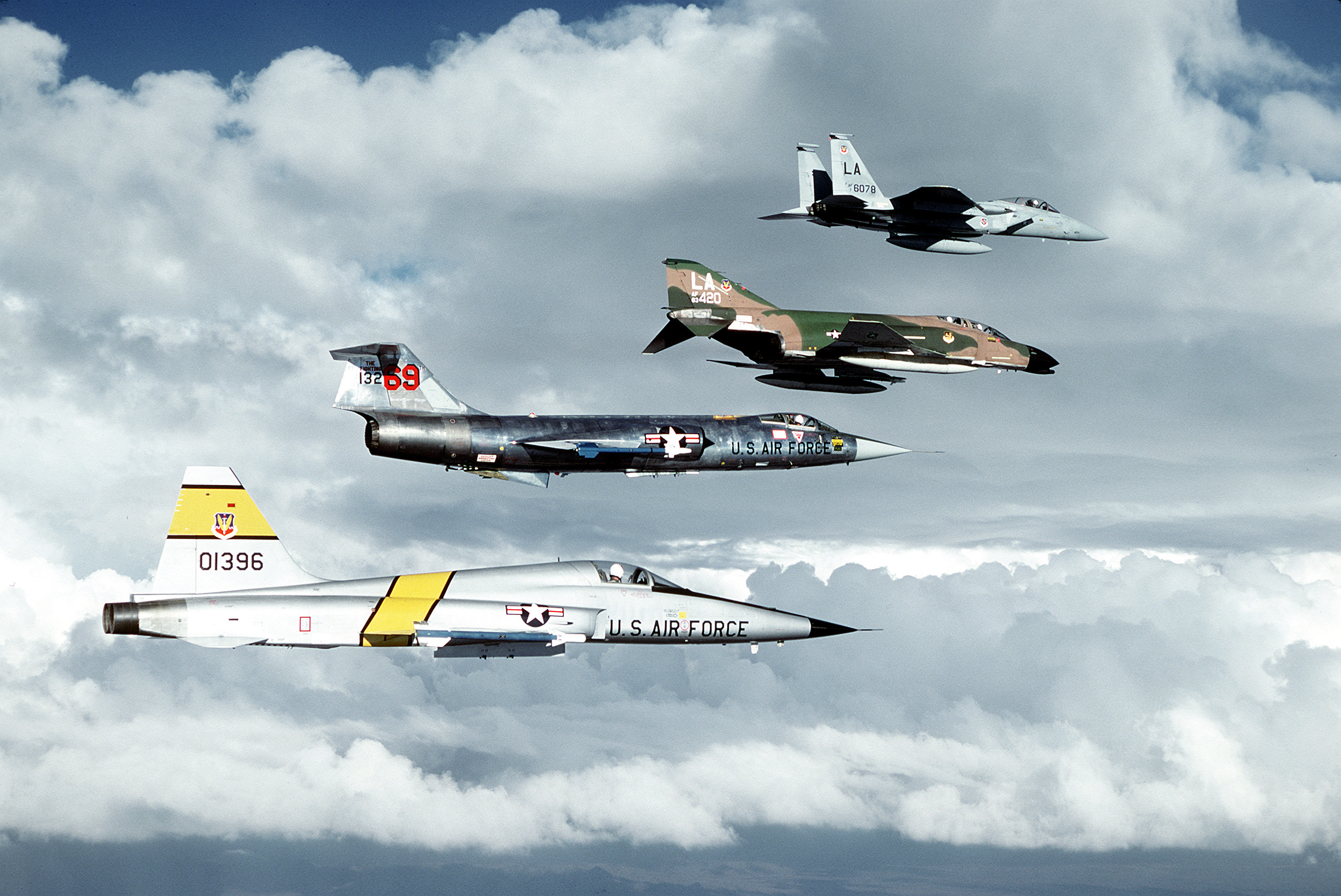 Three U.S. Air Force fighters and a German F-104G from the 58th Tactical Training Wing from Luke Air Force Base, Arizona (USA), in flight on 1 August 1979 (front to back): A Northrop F-5E Tiger II (s/n 72-01396) from the 425th Tactical Fighter Training Squadron; a German Lockheed F-104G Starfighter (USAF s/n 63-13269, built by Fokker) from the 69th Tactical Fighter Training Squadron (although German, the Luke-based F-104s has USAF markings out of administrative reasons); a McDonnell F-4C-15-MC Phantom II (s/n 63-7420) from the 310th Tactical Fighter Training Squadron; and a McDonnell Douglas F-15A-16-MC Eagle (s/n 76-078) from the 555th Tactical Fighter Training Squadron.